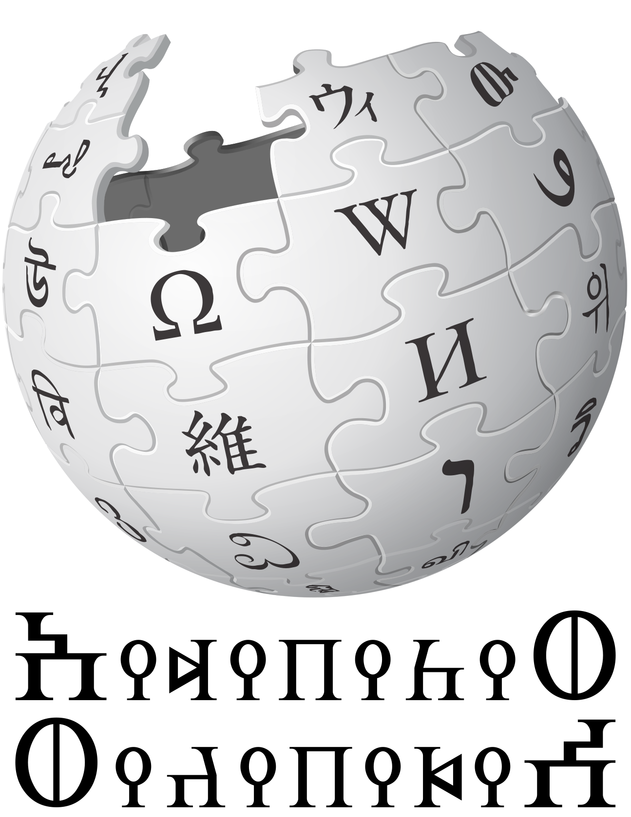 Wikipedia Logo in Musnad Script.